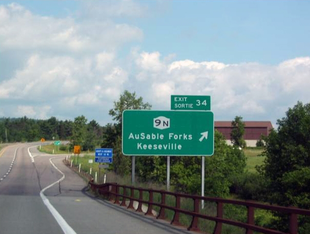 Signage (in both English & French) for Exit 34 off the Adirondack Northway in New York.